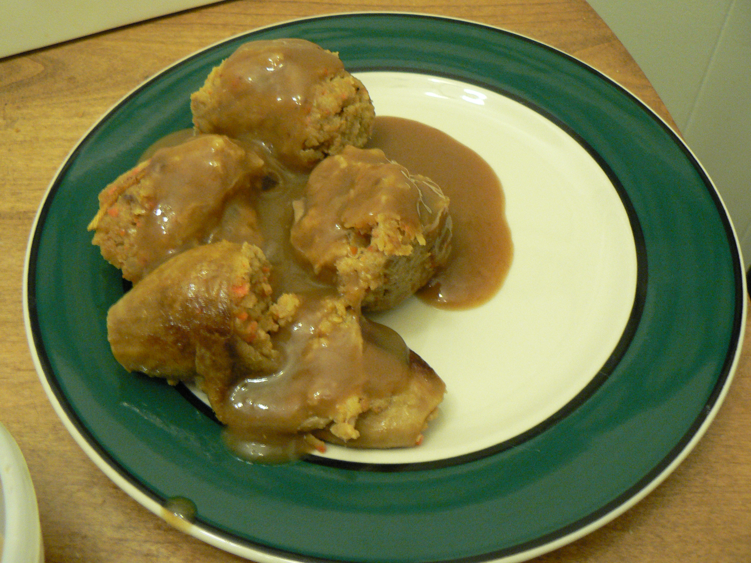 Jewish-style kishke, matzah meal with schmaltz packed into a beef intestine, in gravy.